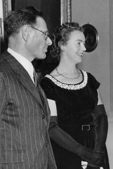 Reception for Nobel Prizes. Hans Krebs with wife Margaret, Mary Soames and Fritz